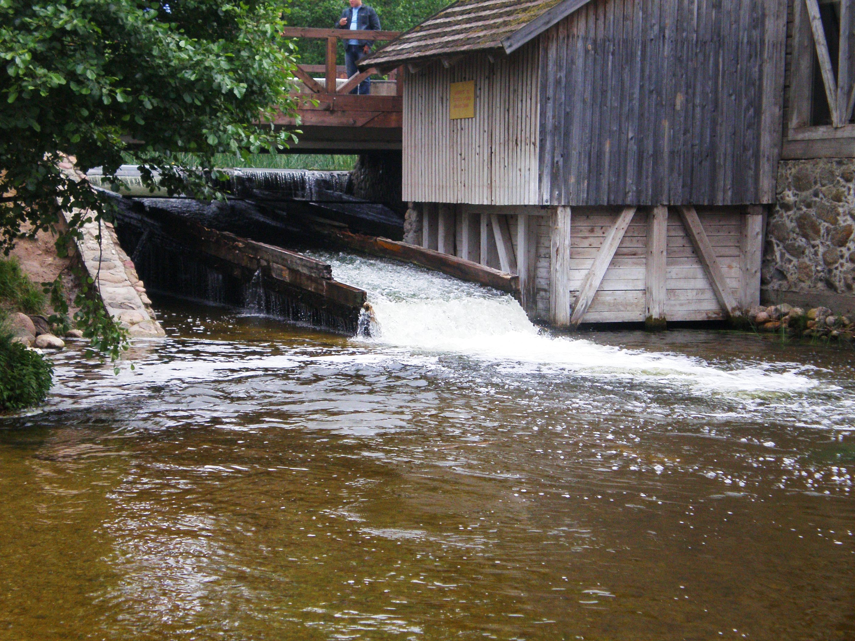 Ginučiai watermill, Lithuania